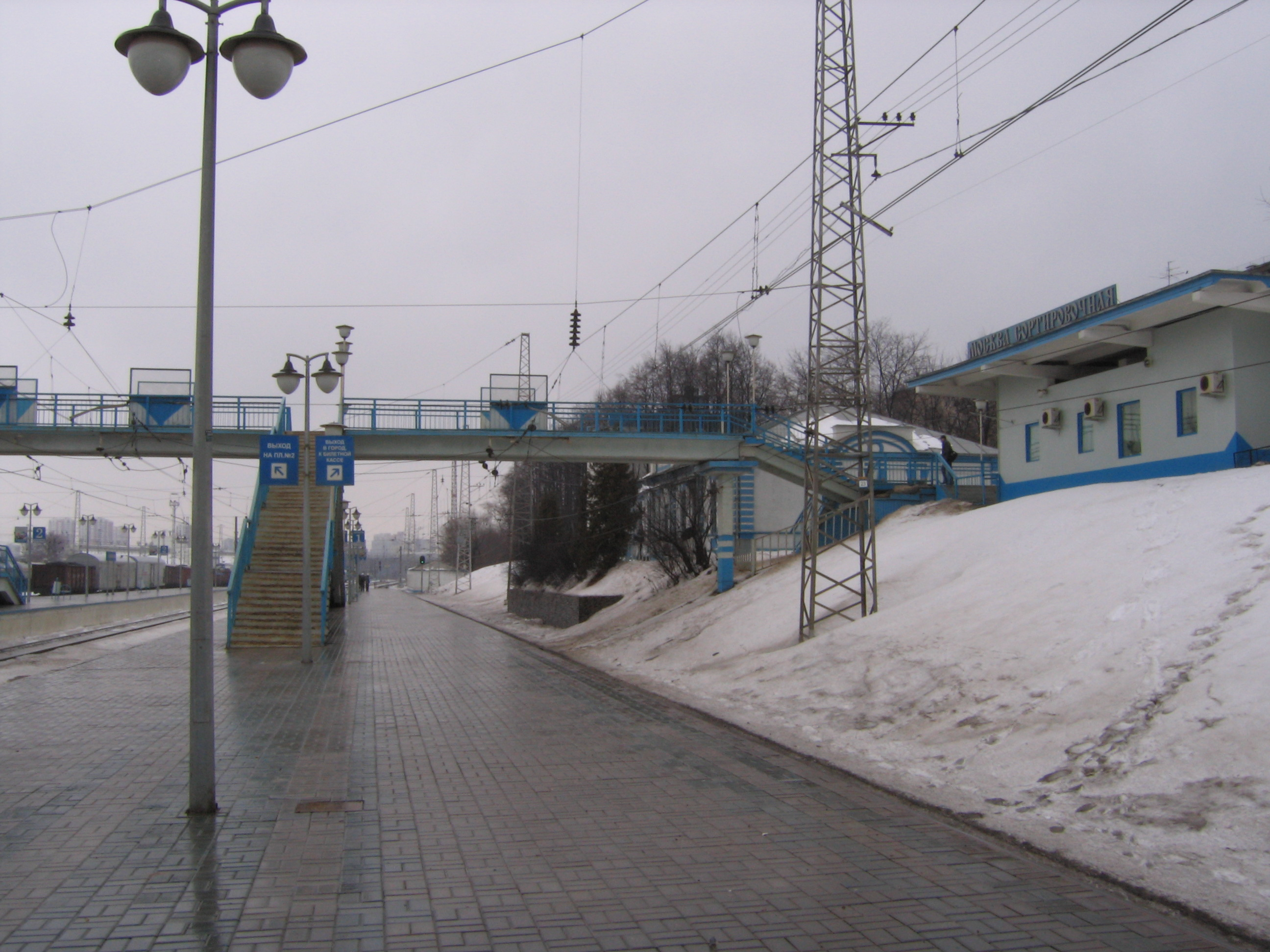 Moskva-Sortirovochnya-Kievskaya railway station in Moscow, Russia